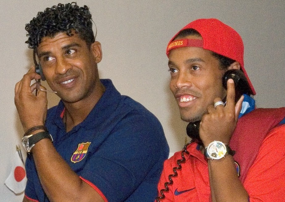 JSC2006-E-33425 (8 August 2006) --- Members of the European champion soccer team, FC Barcelona, made a special call at 4:10 p.m. EDT, Tuesday, Aug. 8 to the International Space Station crew. During a visit to NASA's Johnson Space Center, Houston, the team stopped in the Station (Blue) Flight Control Room in Mission Control to make the call. The FC Barcelona team is scheduled to play an Aug. 9 exhibition game against Club America, one of Mexico's top club teams. Players, coaches and guests of the team visited mission control rooms used for the station and shuttle, and the historic control room used during Apollo missions and lunar landings. They also visited training facilities including full-scale mockups of the station and shuttle.